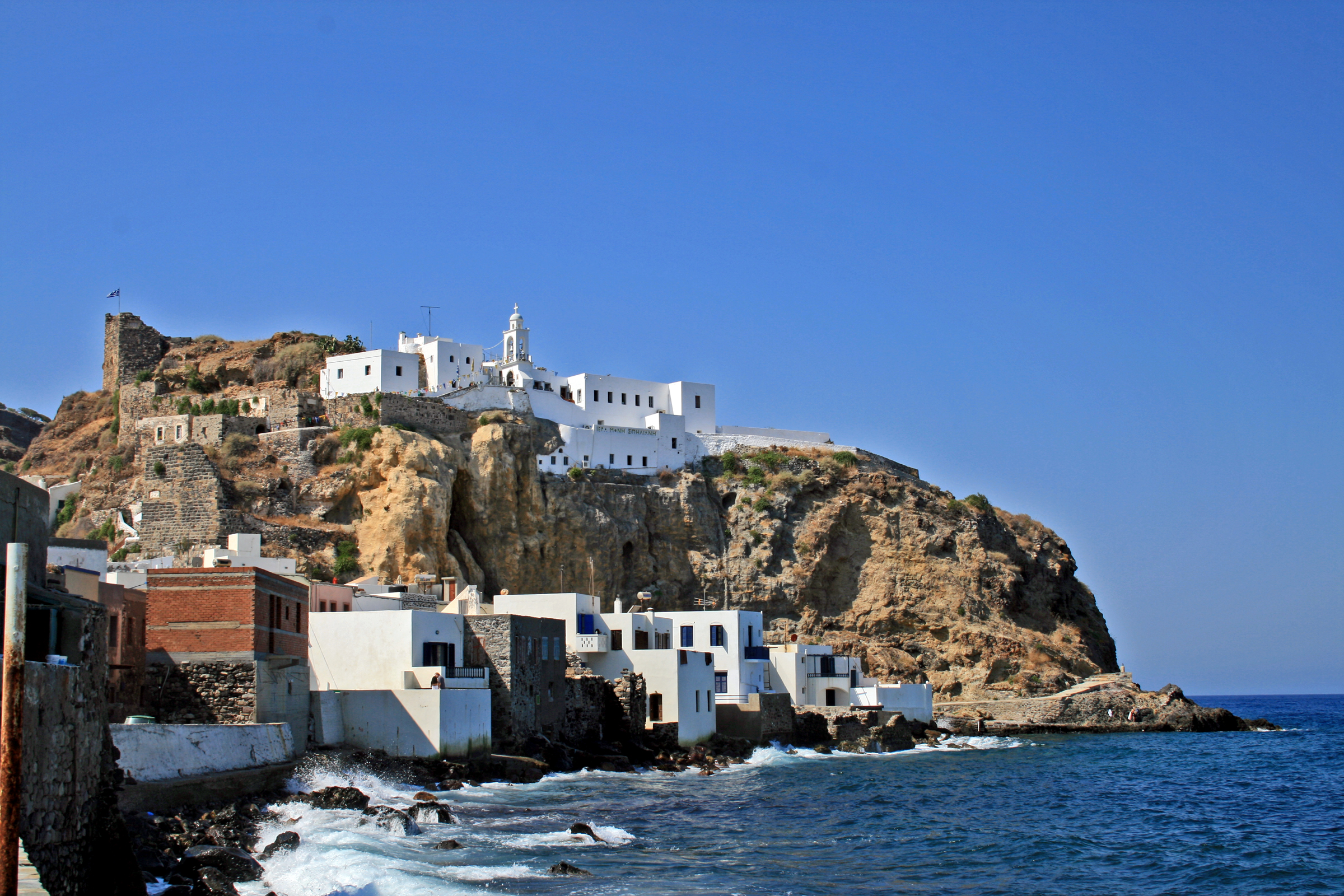 Monastery Panagia Spiliani over small town Mandraki on Nisyros island (Greece)